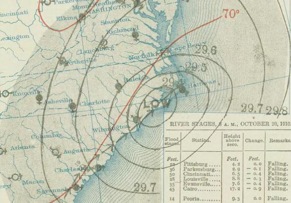 Surface weather analysis of the Cuba hurricane on 20 October 1910 along the coast of the Carolinas.